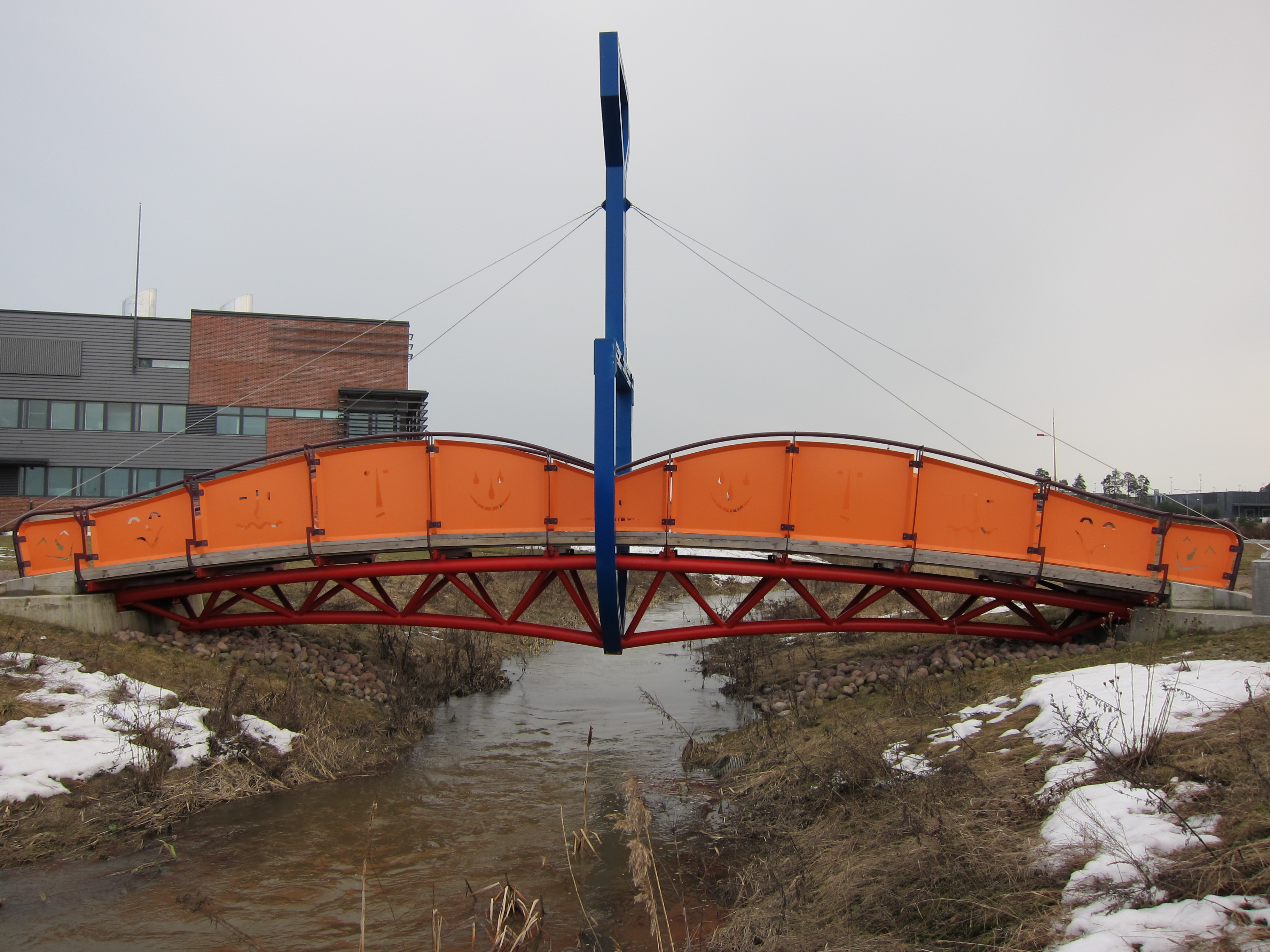 Jaaninoja is a small ditch in Turku Finland. It flows to the Aura River.